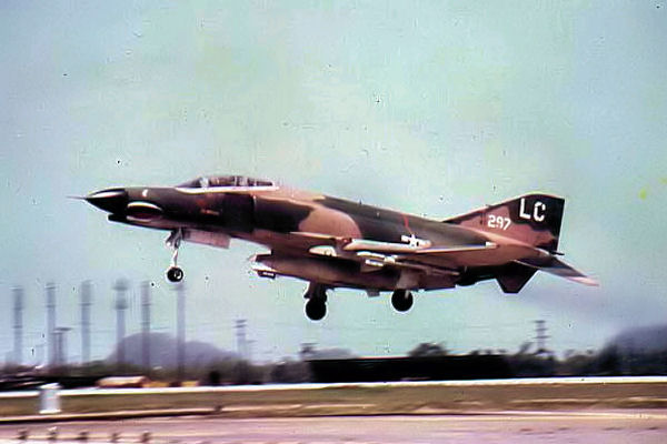 MDD F-4E-35-MC Phantom II s/n 67-0297 in the 421st Tactical Fighter Squadron, 366th Tactical Fighter Wing - DaNang Air Base, South Vietnam. This a/c was later lost with her crew to AAA near near Sre Chas / Songkum-Andet, Cambodia on 6/18/1970.